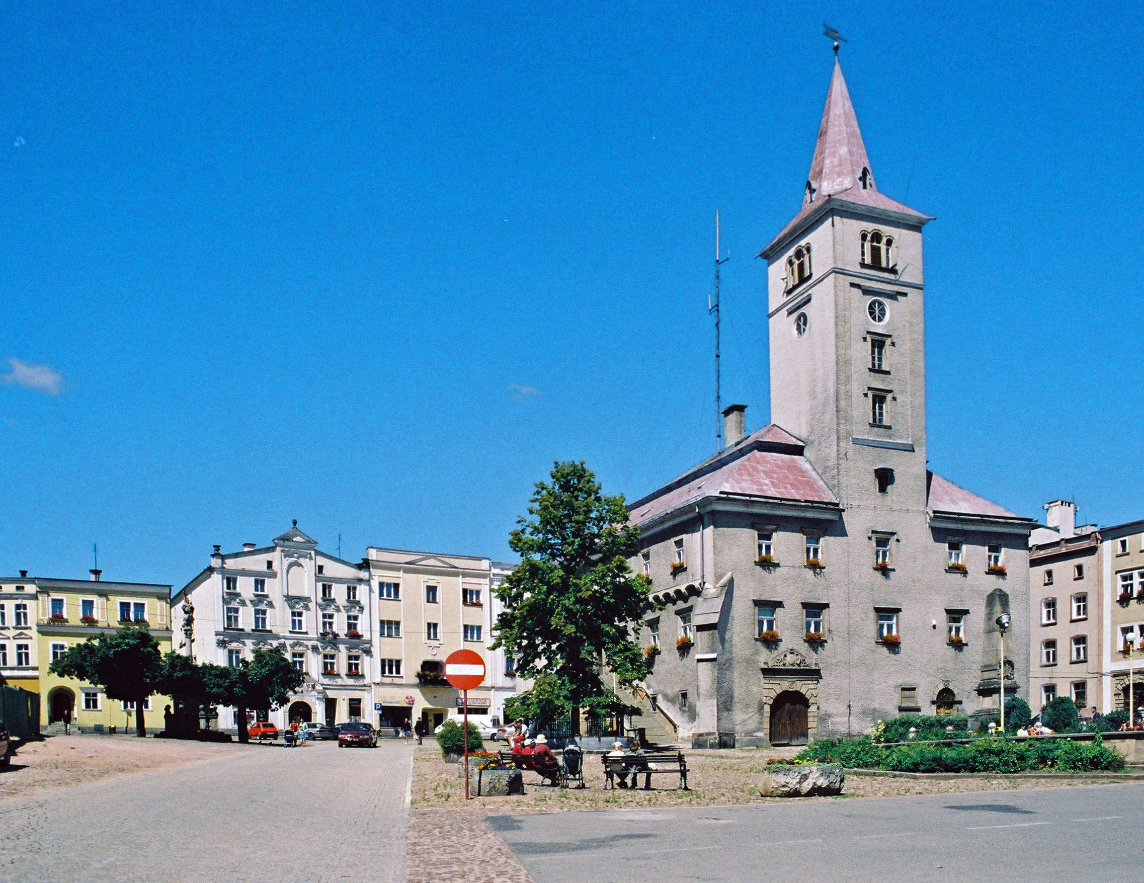 Radków, Poland – the townhall and marketplace